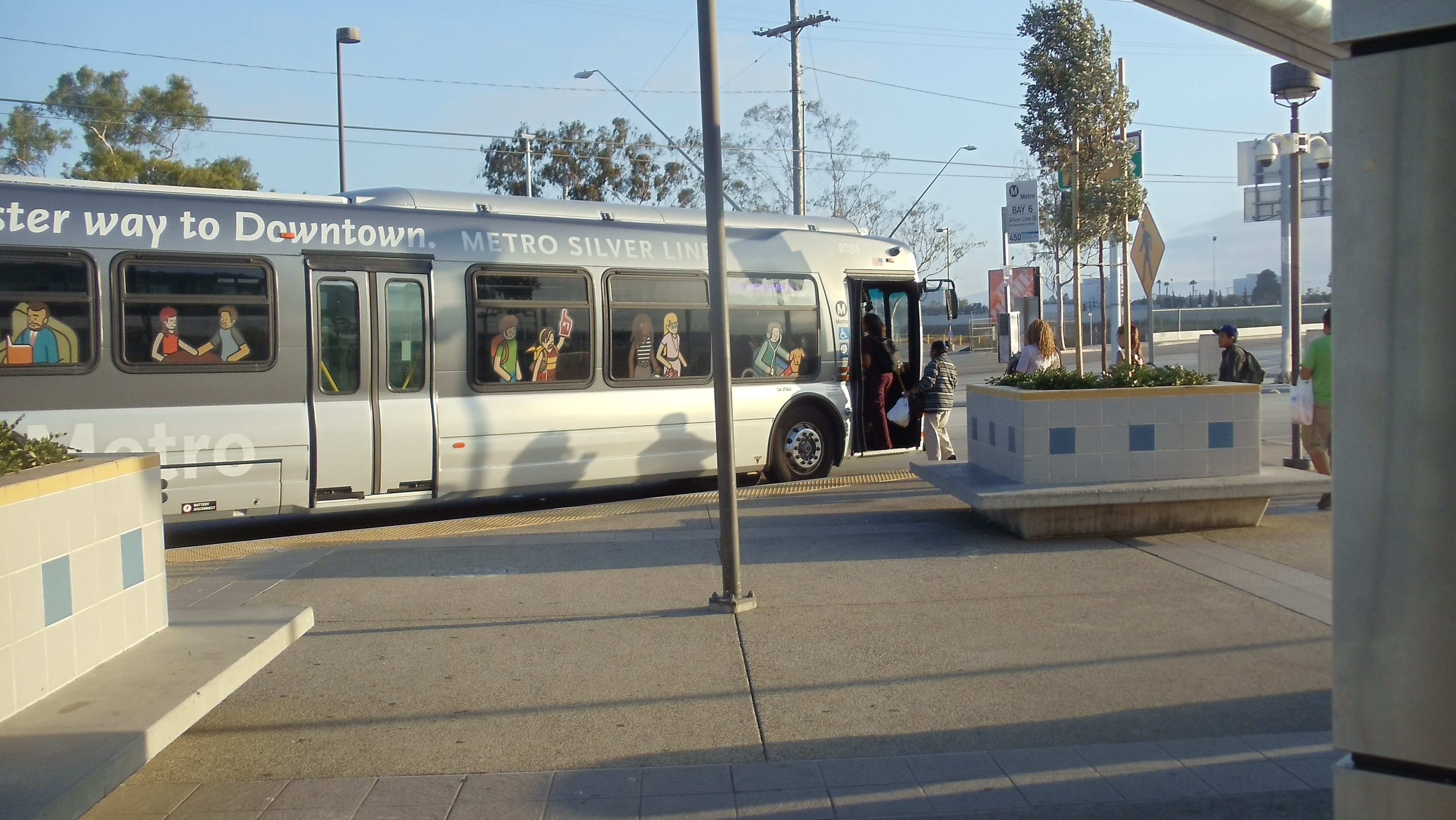 Line of passengers waiting to board Metro Silver Line.